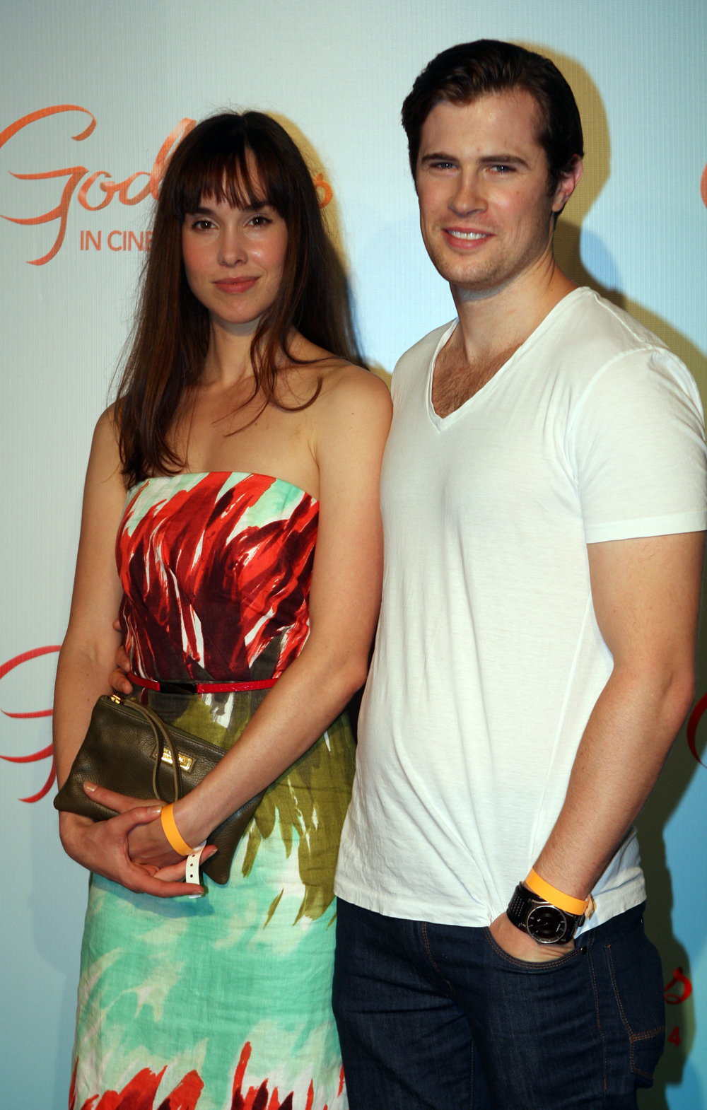 David Berry and ??? at the 'Goddess' world premiere; Bondi Junction, Sydney, Australia. Irish sensation Ronan Keating was there, as was West End and Broadway star Laura Michelle Kelly and much-loved comedian Magda Szubanski. Directed by: Mark Lamprell Starring: Ronan Keating, Magda Szubanski and Laura Michelle Kelly When a young mother mother of naughty twin boys Elspeth Dickens installs a webcam in her kitchen, her funny sink-songs make her a cyber-sensation. While husband James is off saving the world's whales, Elspeth is offered a chance of a lifetime. But when forced to choose between fame and family, the newly anointed internet goddess almost loses it all. Cast members attending world premiere: Ronan Keating, Laura Michelle Kelly, Magda Szubanski, Hugo Johnstone-Burt, Dustin Clare, Natalie Tran, Celia Ireland, Mike Goldman and director Mark Lamprell. Plot... Elspeth Dickens dreams of finding her "voice" despite being stuck in an isolated farmhouse with her twin toddlers. A web-cam becomes her pathway to fame and fortune, but at a price. Websites Village Roadshow Australia Eva Rinaldi Photography